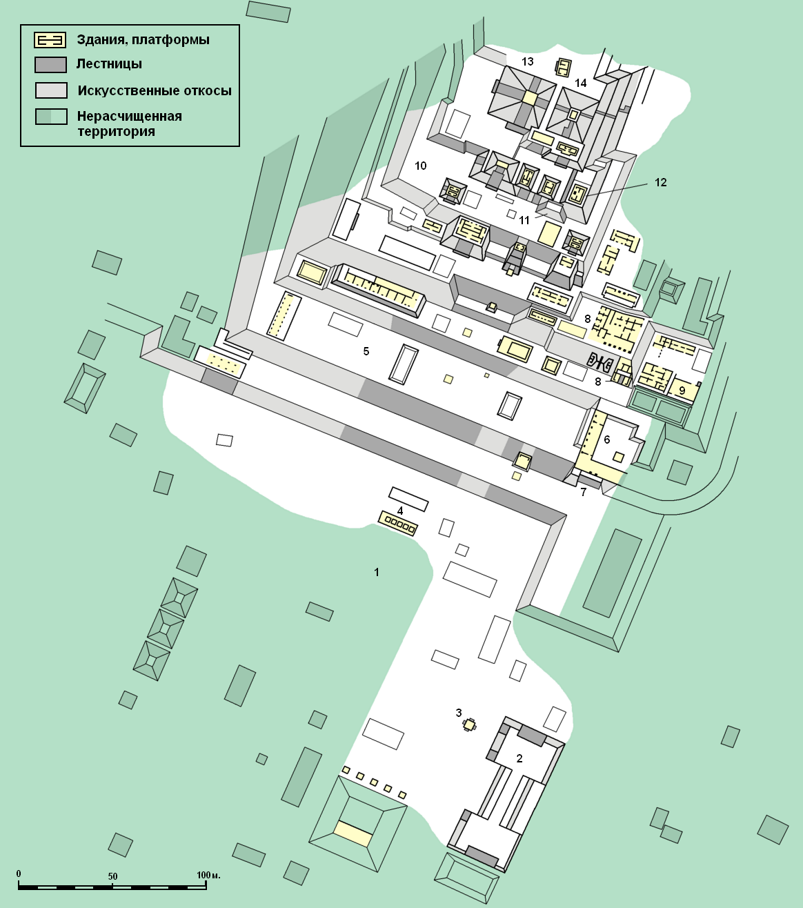 Plan of the ruins of the archaeological complex Tonina. Chiapas. Mexico